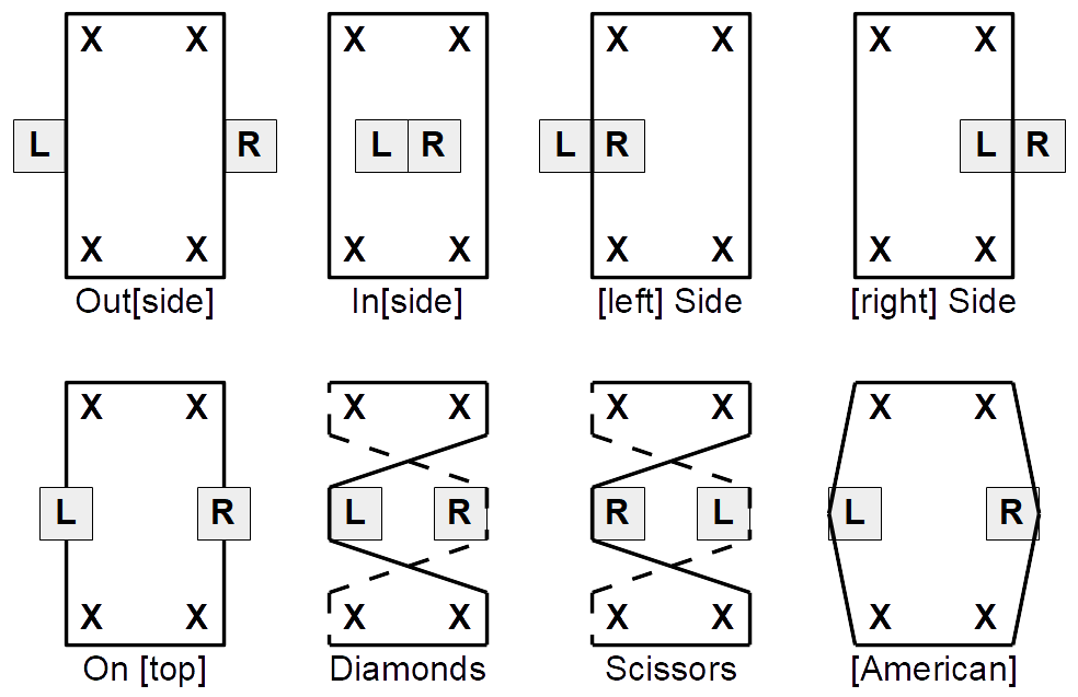 Chinese jump rope moves or positions: Out[side], in[side], [L] side, [R] side, on [top], diamonds, scissors, and a move that is part of the Americans pattern.